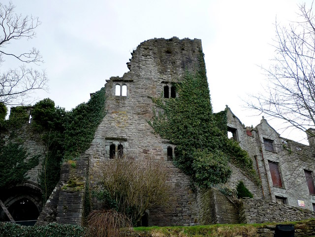 Derelict castle in Hay-on-Wye An eerie facade overlooking the Market Place, Hay-on-Wye